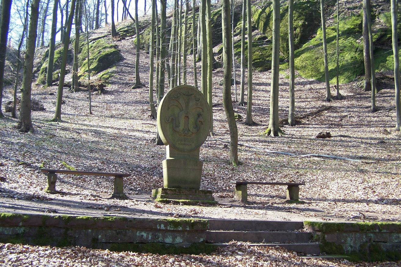 The memorial place for Hans Lucas Cranach (1855-1929) in Eisenach, Wartburgallee.